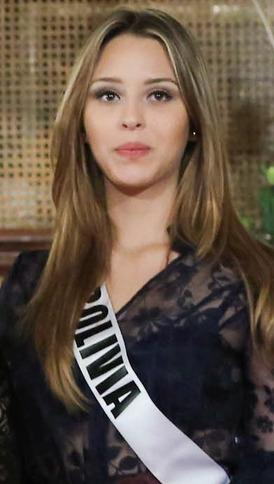 President Rodrigo Roa Duterte and Tourism Secretary Wanda Teo are flanked by candidates of the 65th Miss Universe during a photo session at the Rizal Hall in Malacañan Palace on January 23, 2017. ALBERT ALCAIN/Presidential Photo